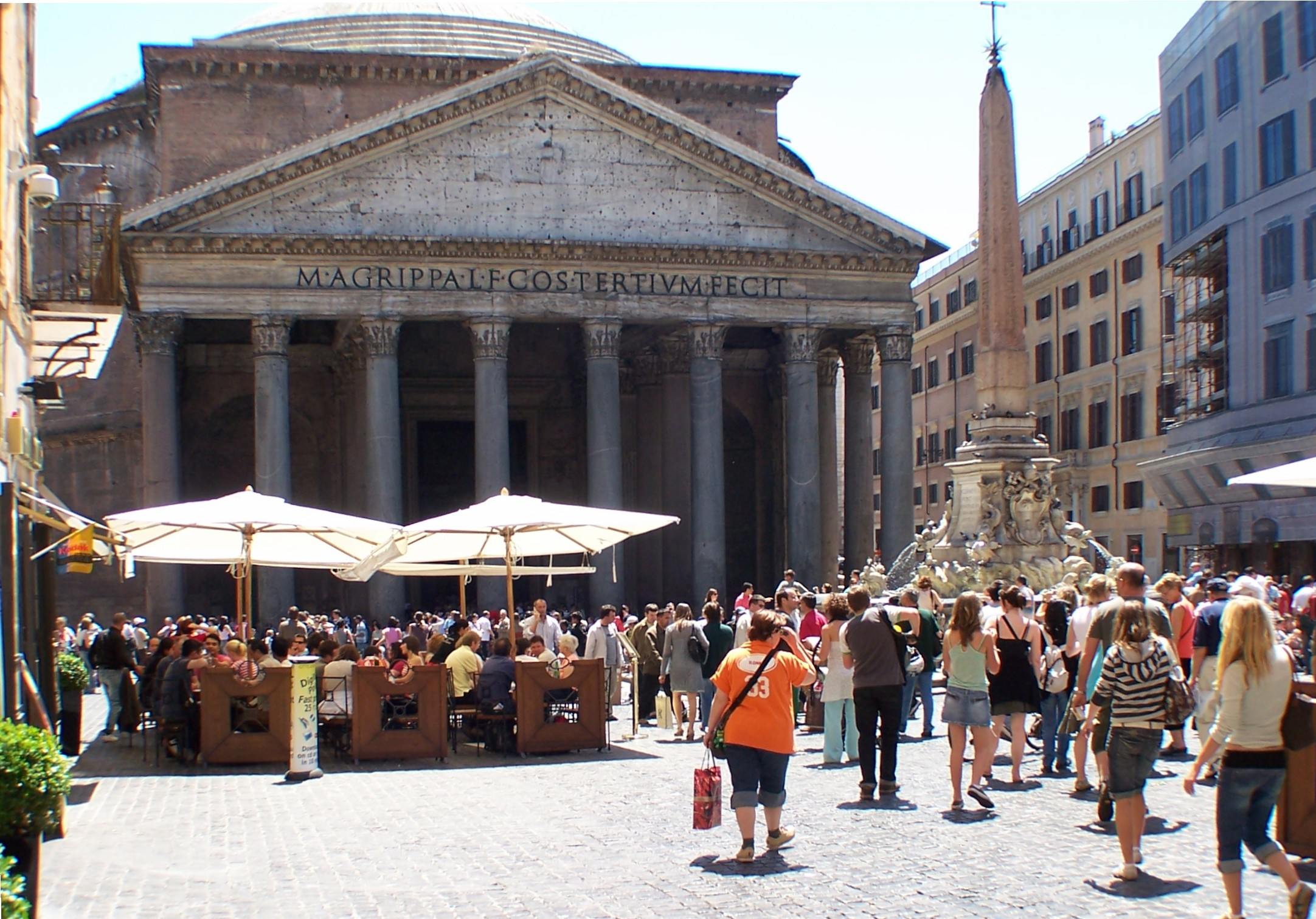 Pantheon in Rom